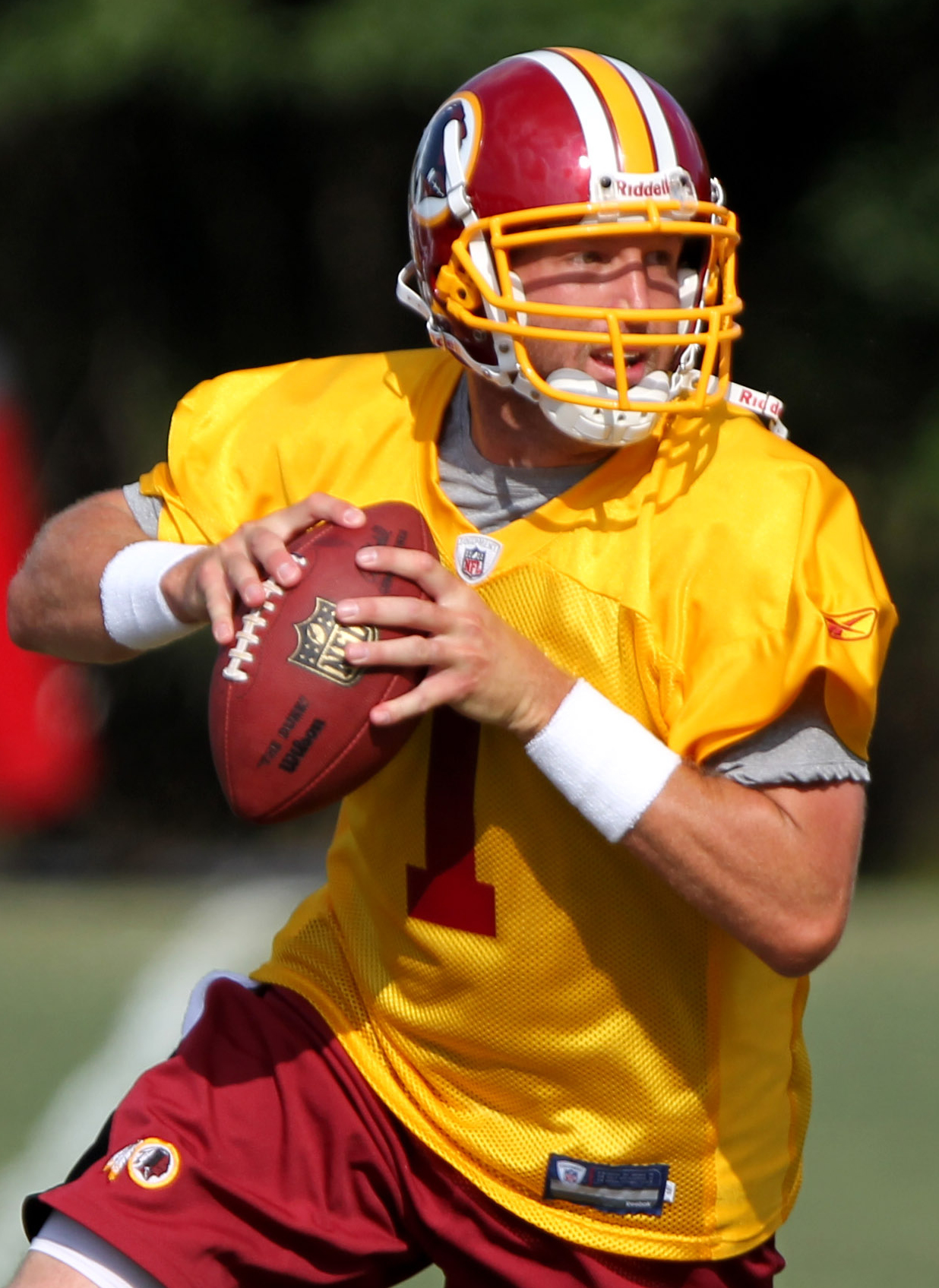 Kellen Clemens at Washington Redskins Training Camp August 4, 2011